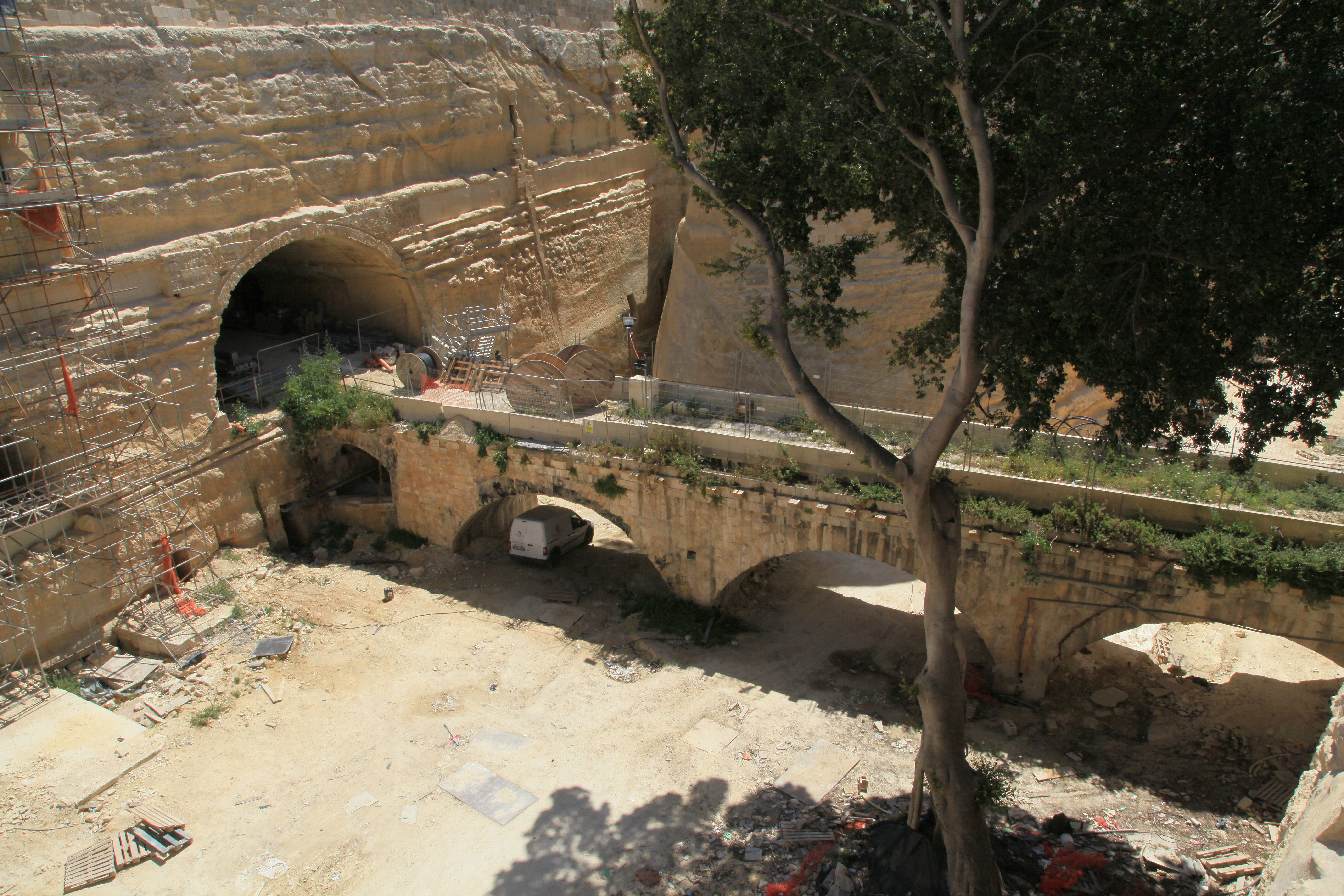 View from the Valletta City Gate bridge down to railway bridge and tunnel in the Valletta Ditch in Valletta, Malta